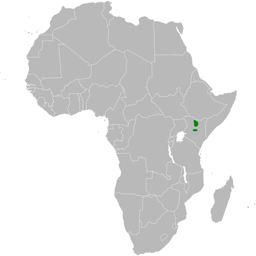 Mirafra williamsi distribution map; using BlankMap-Africa.svg, based on